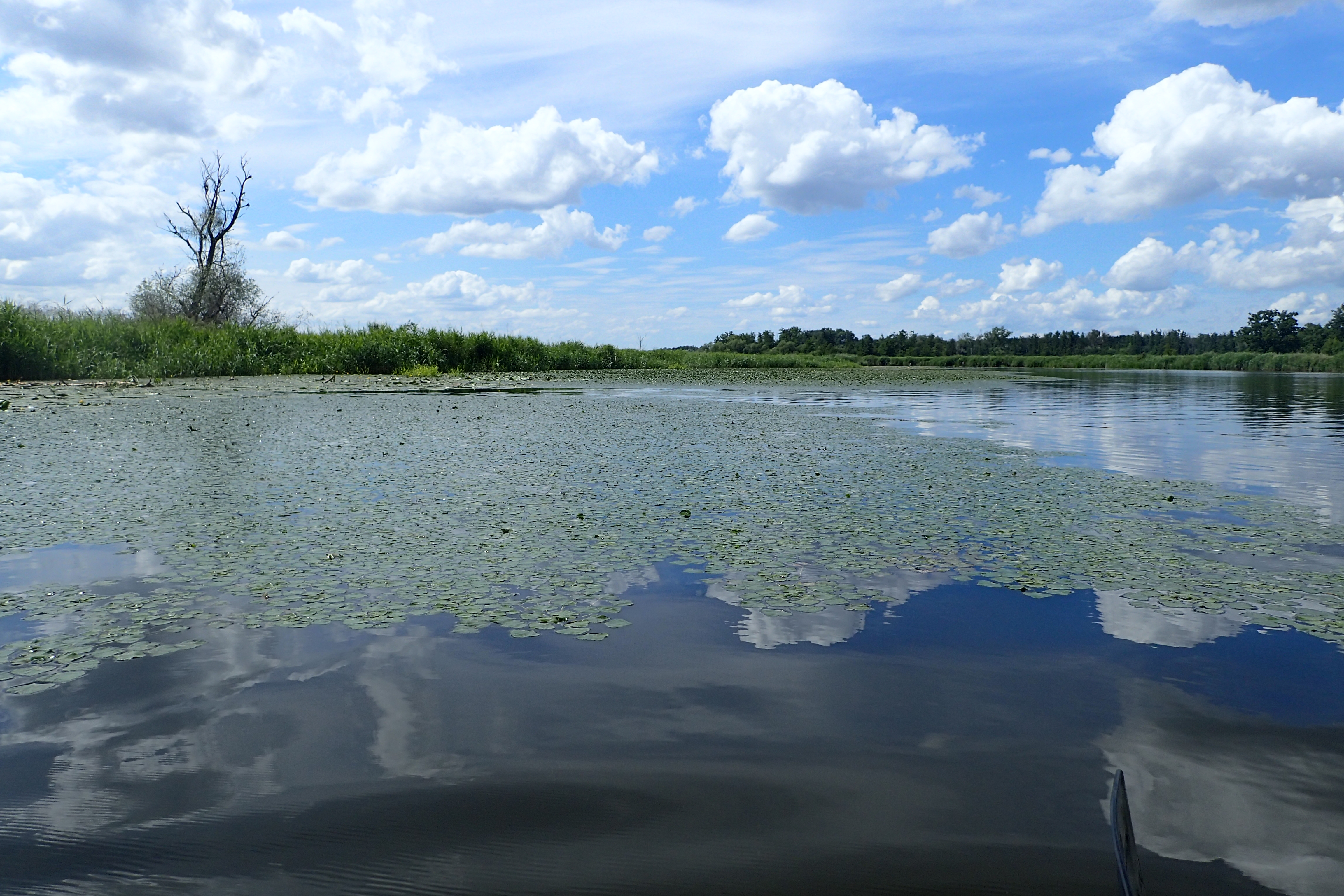 Trapa natans in Obnica Północna (side arm of Regalica) near Szczecin Podjuchy, NW Poland